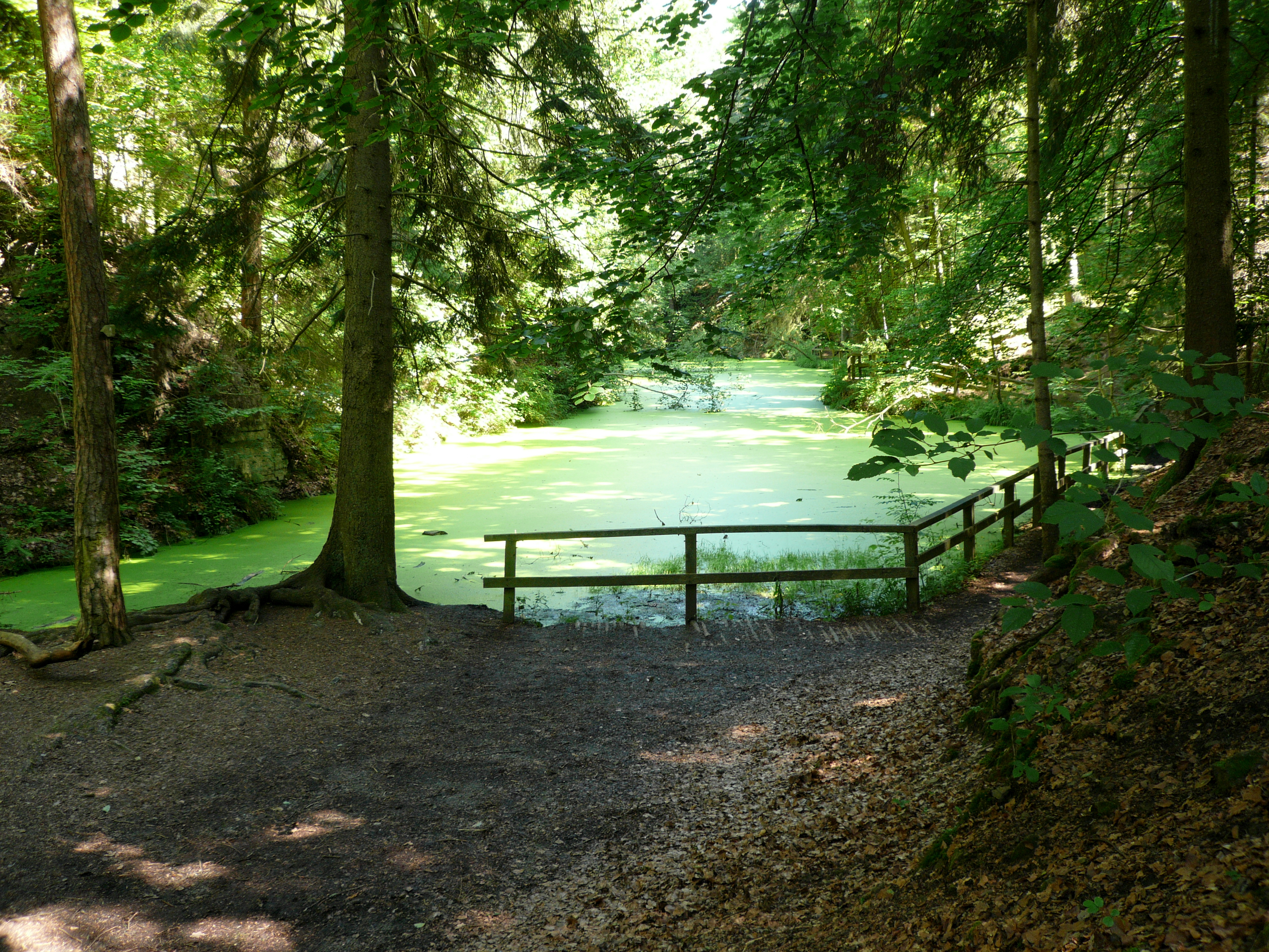 Lake Maerchensee on Pfaffenberg near Tuebingen